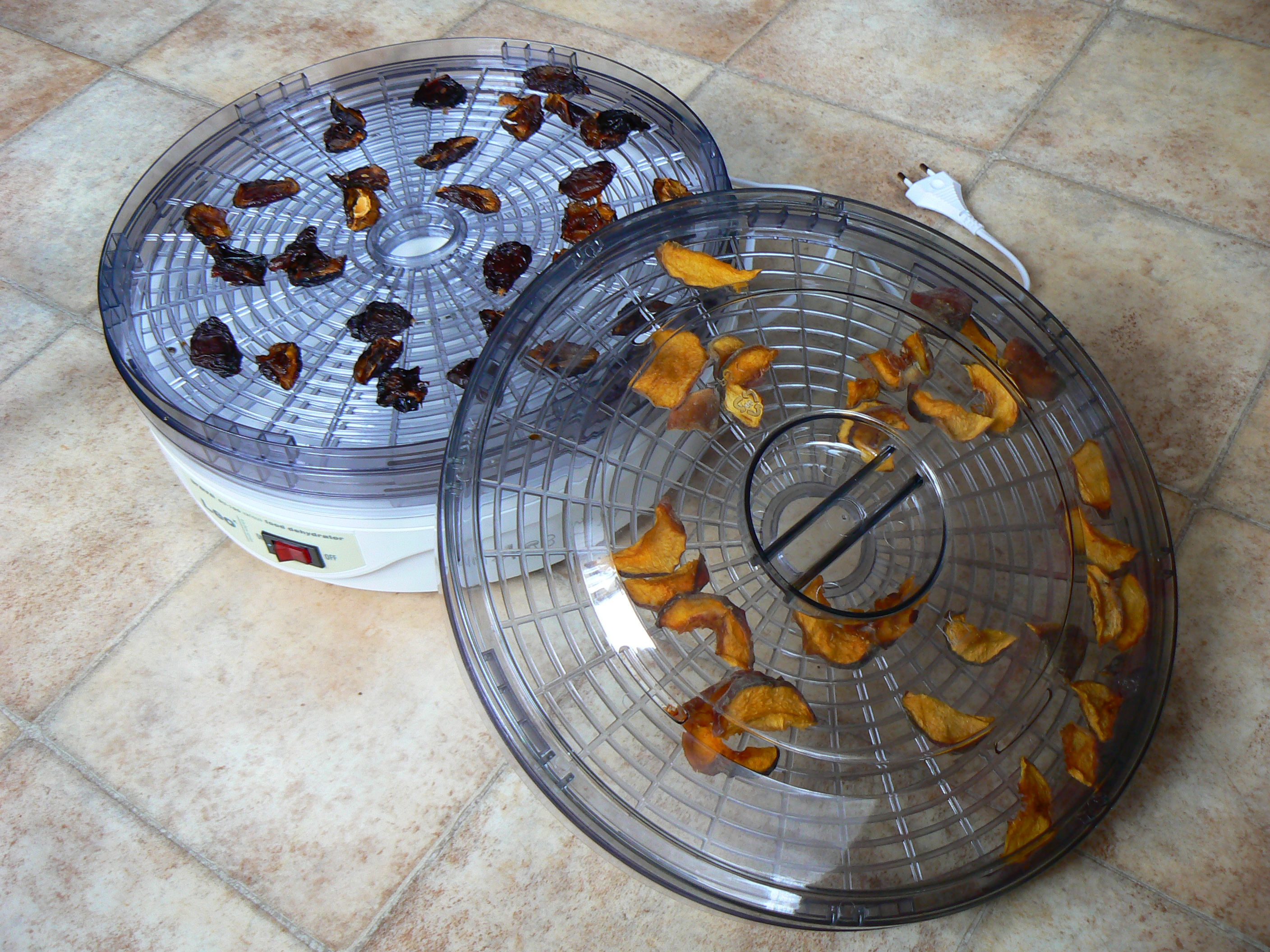 Electric food dehydrator - multiple trays stacked on top of each other enable drying of big amounts of food, in this case plums and peaches (under the lid)